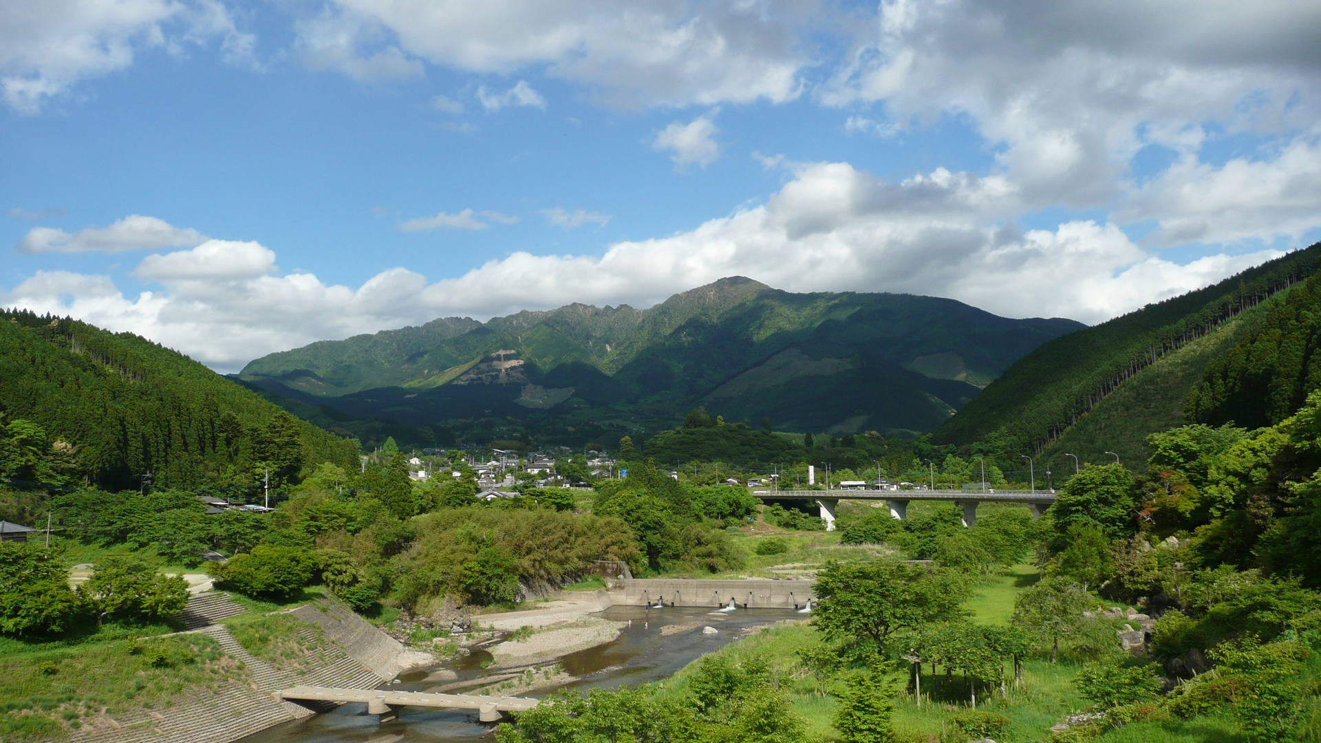 Mt. Ichifusa (Yuyama, Mizukami Village, Kumamoto, Japan)